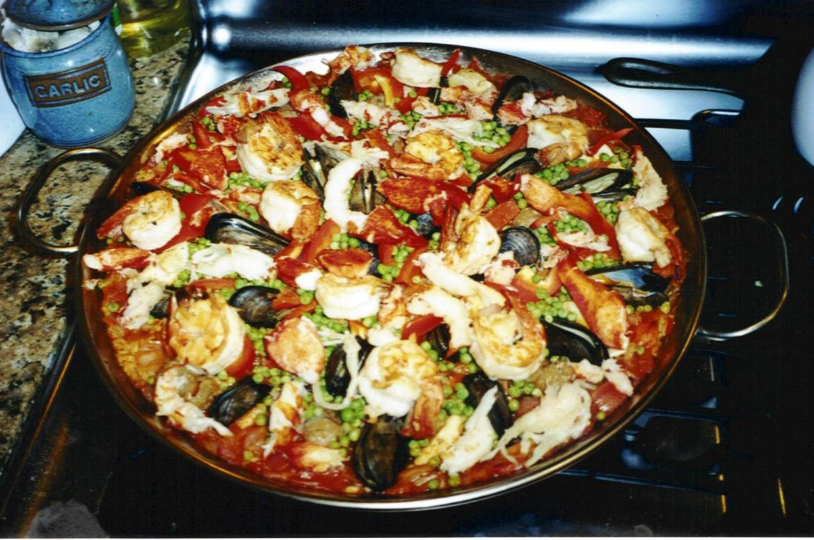 Photo of a seafood paella with peas in a paella pan on a stovetop